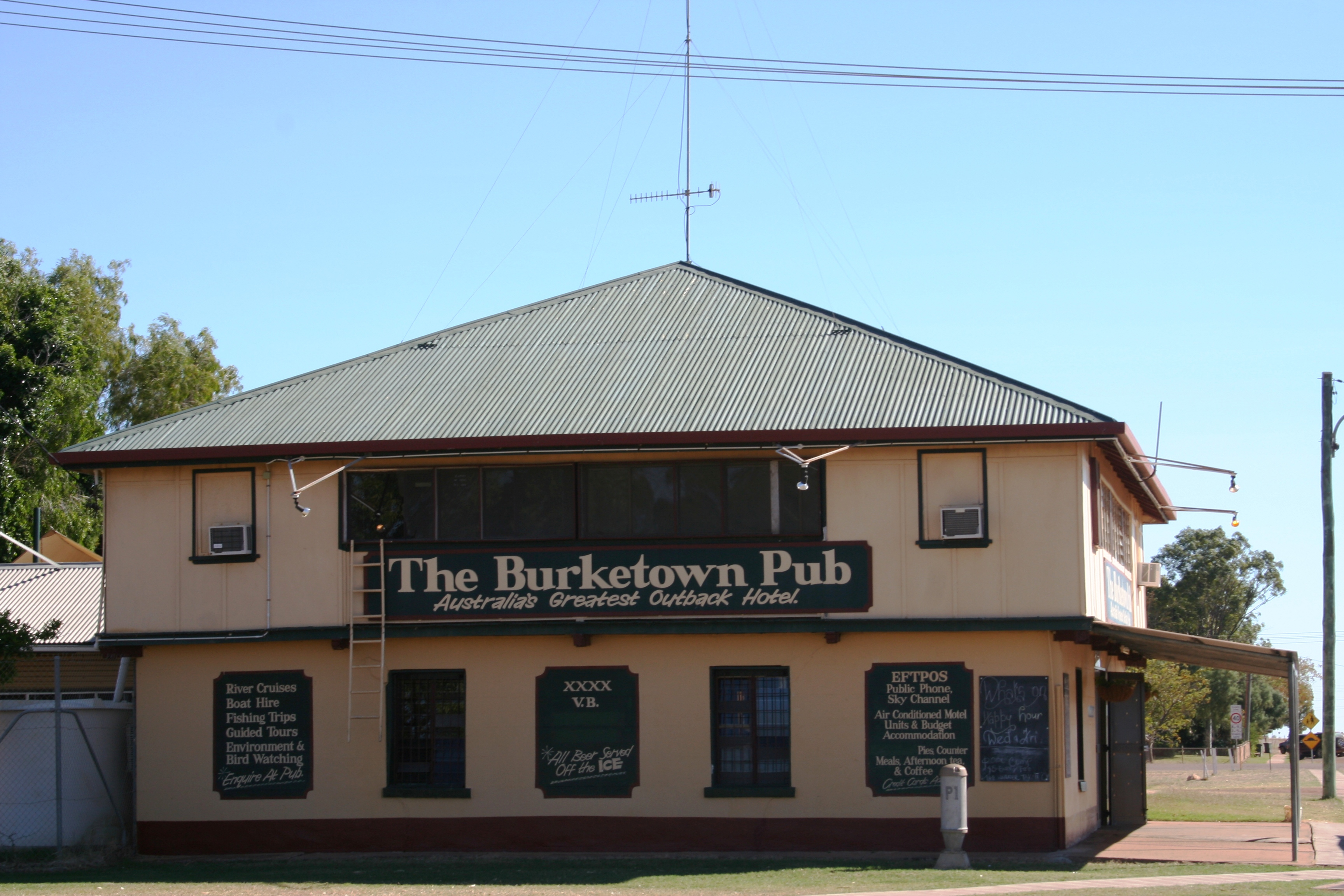 Burketown, Gulf Savannah, Queensland, Australia